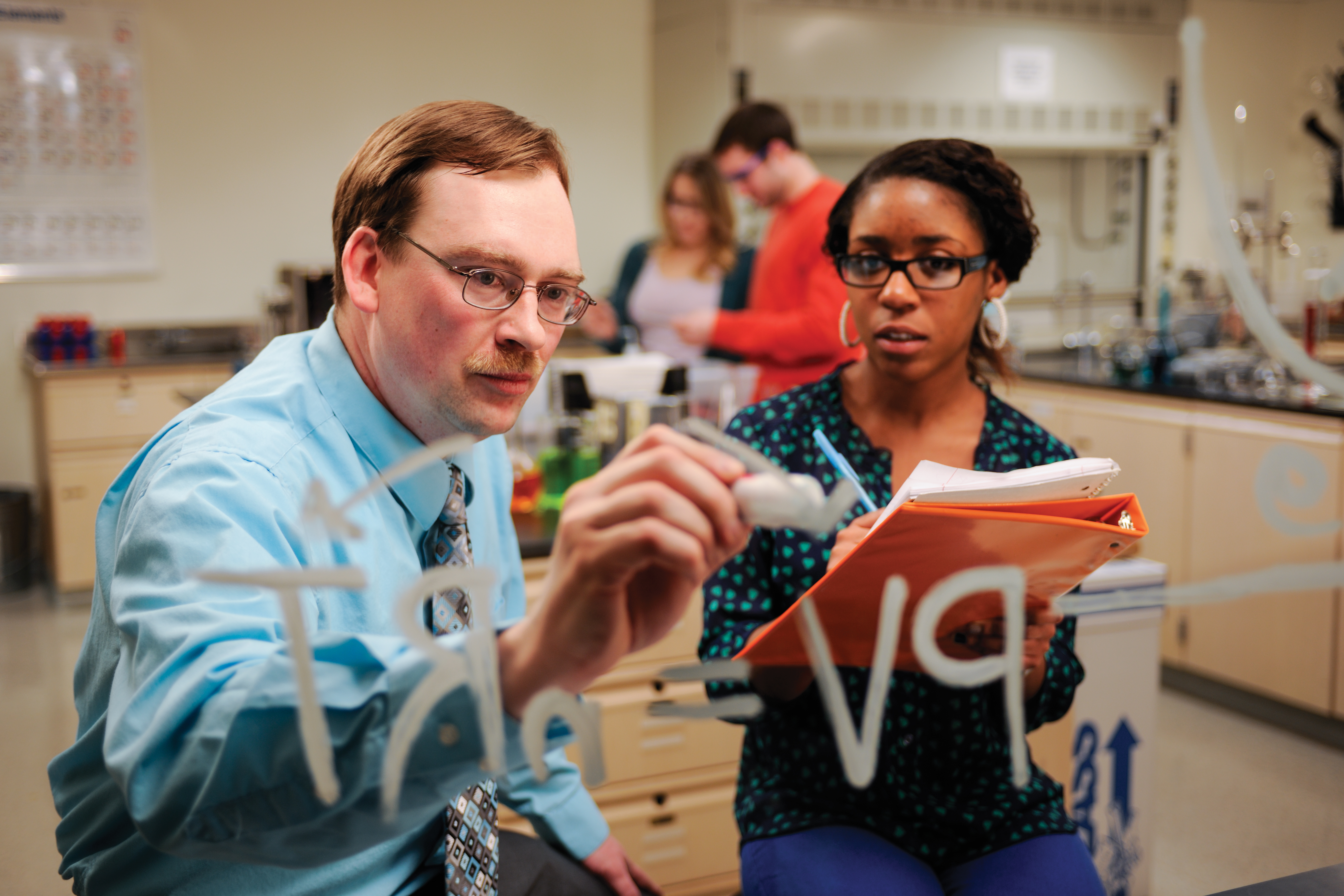 King's College classroom